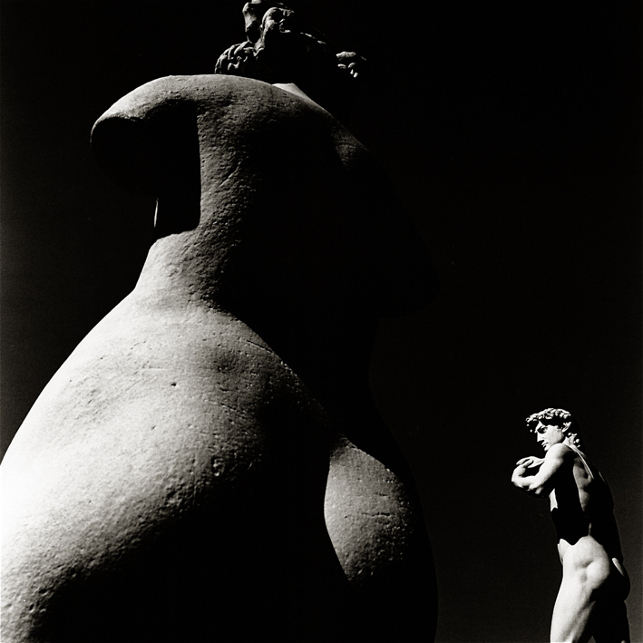 Florence